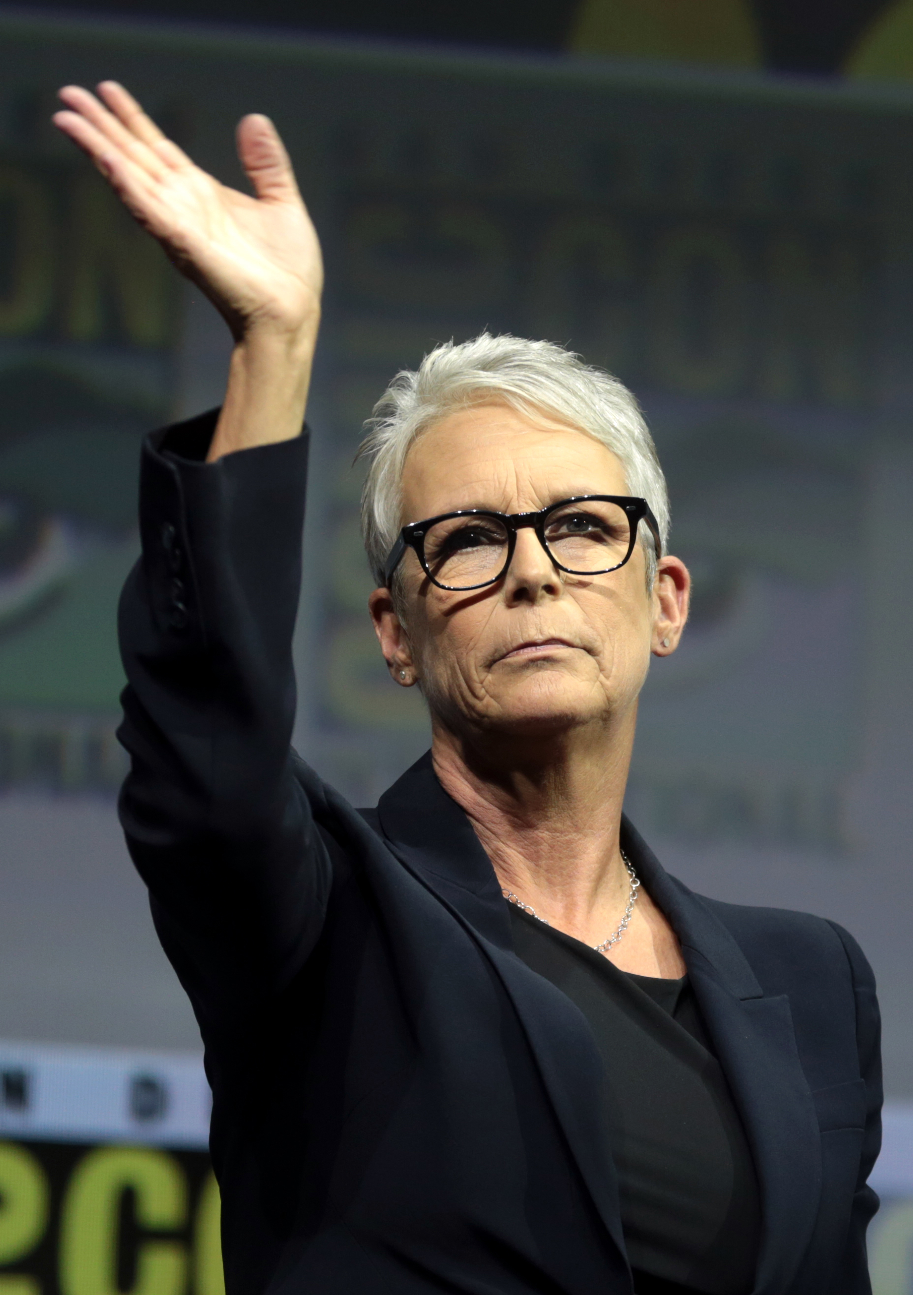 Jamie Lee Curtis speaking at the 2018 San Diego Comic-Con International in San Diego, California.